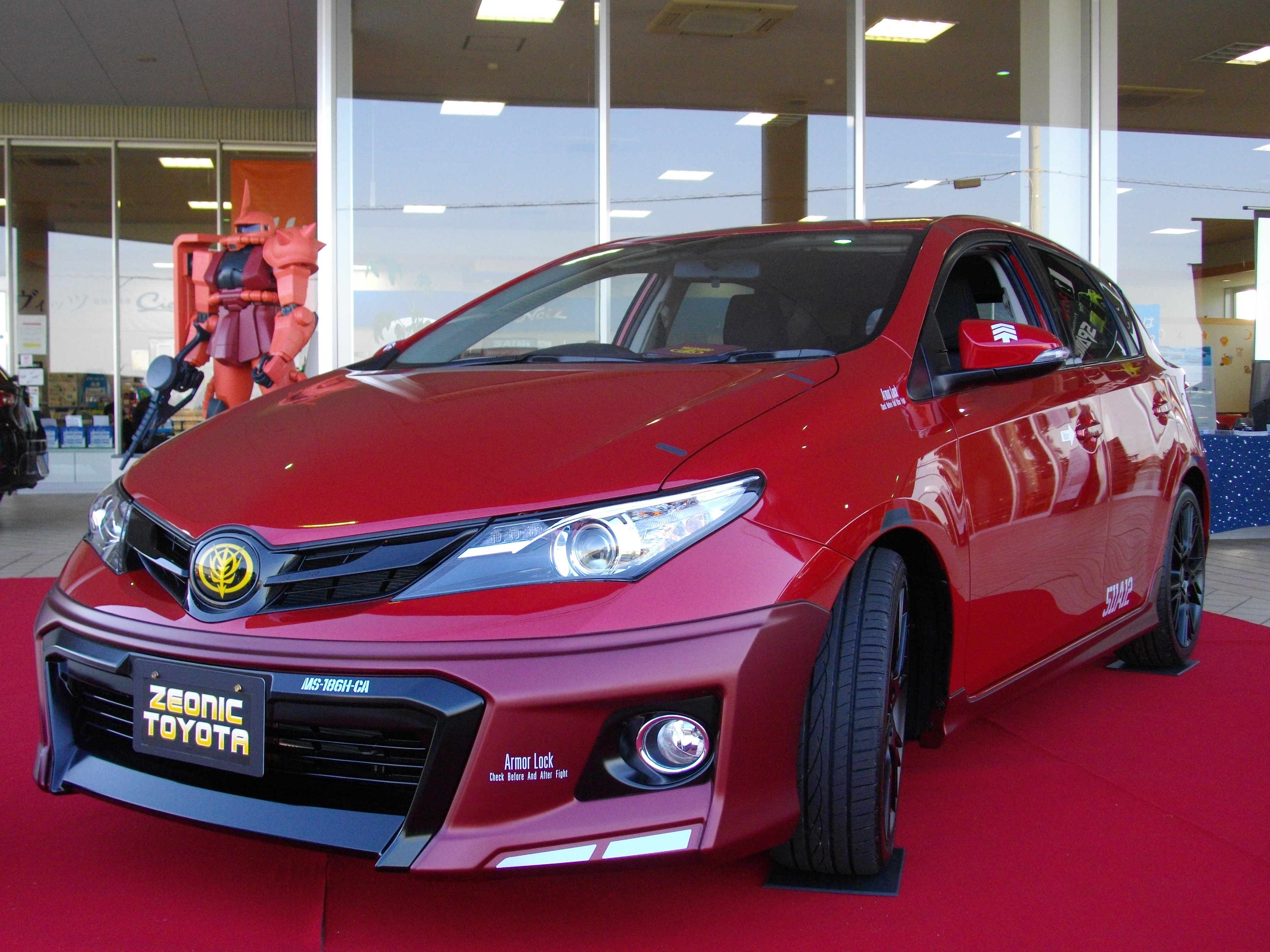 NZE181 Auris(JDM) 150X S-Package 2WD/CVT "Char's customize" Taken at Netz Toyota Ehime J.Spot Komatsu(Saijo City, Ehime Pref.) by hd207